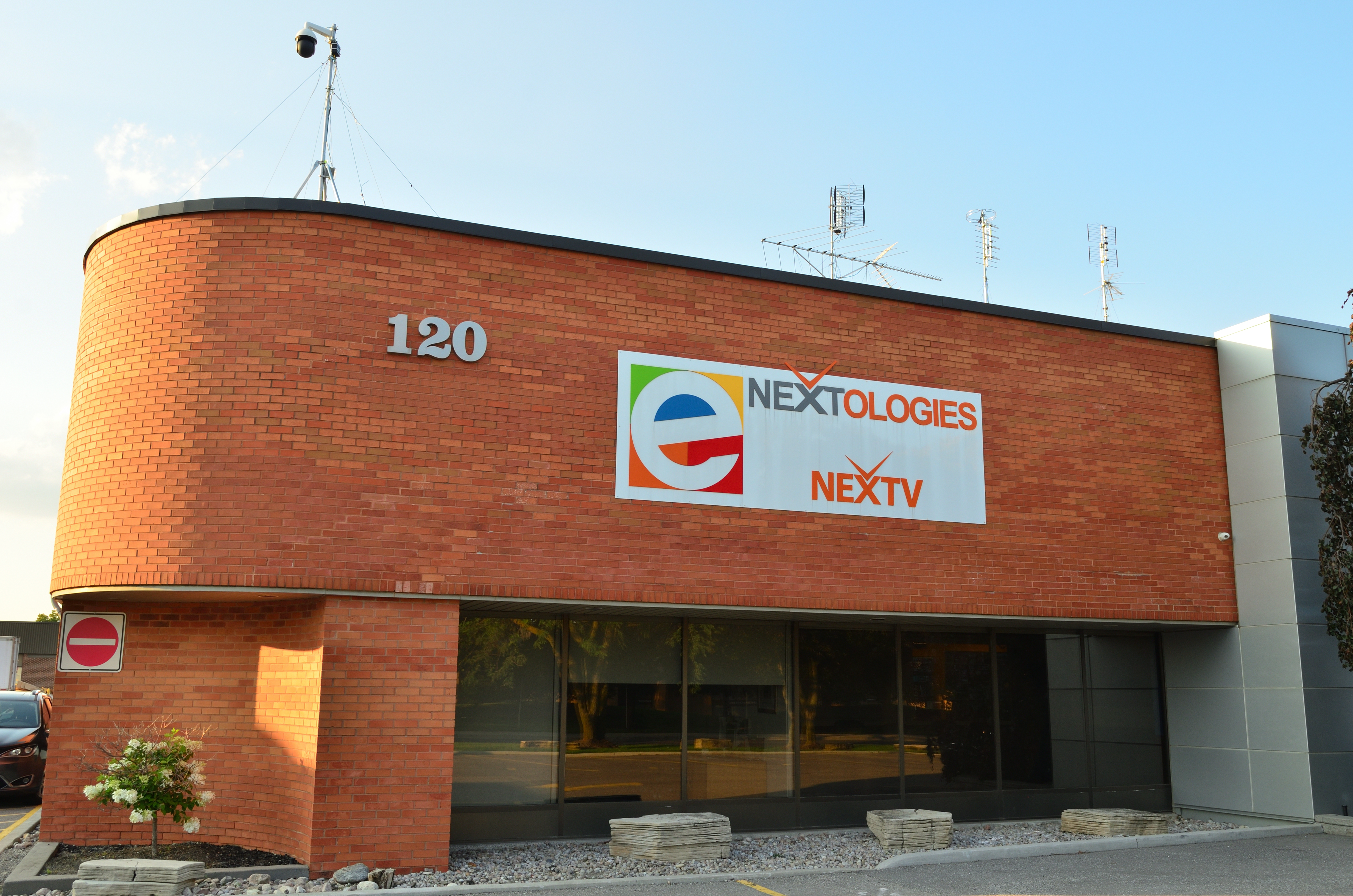 NEXTV - Address: 120 Amber Street, Markham, Ontario, L3R 3A3 Canada